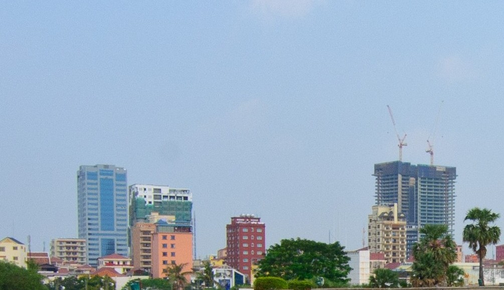 The developing skyline of Phnom Penh, other buildings such as the OCIC Tower is missing from this skyline shot. Cropped the original.